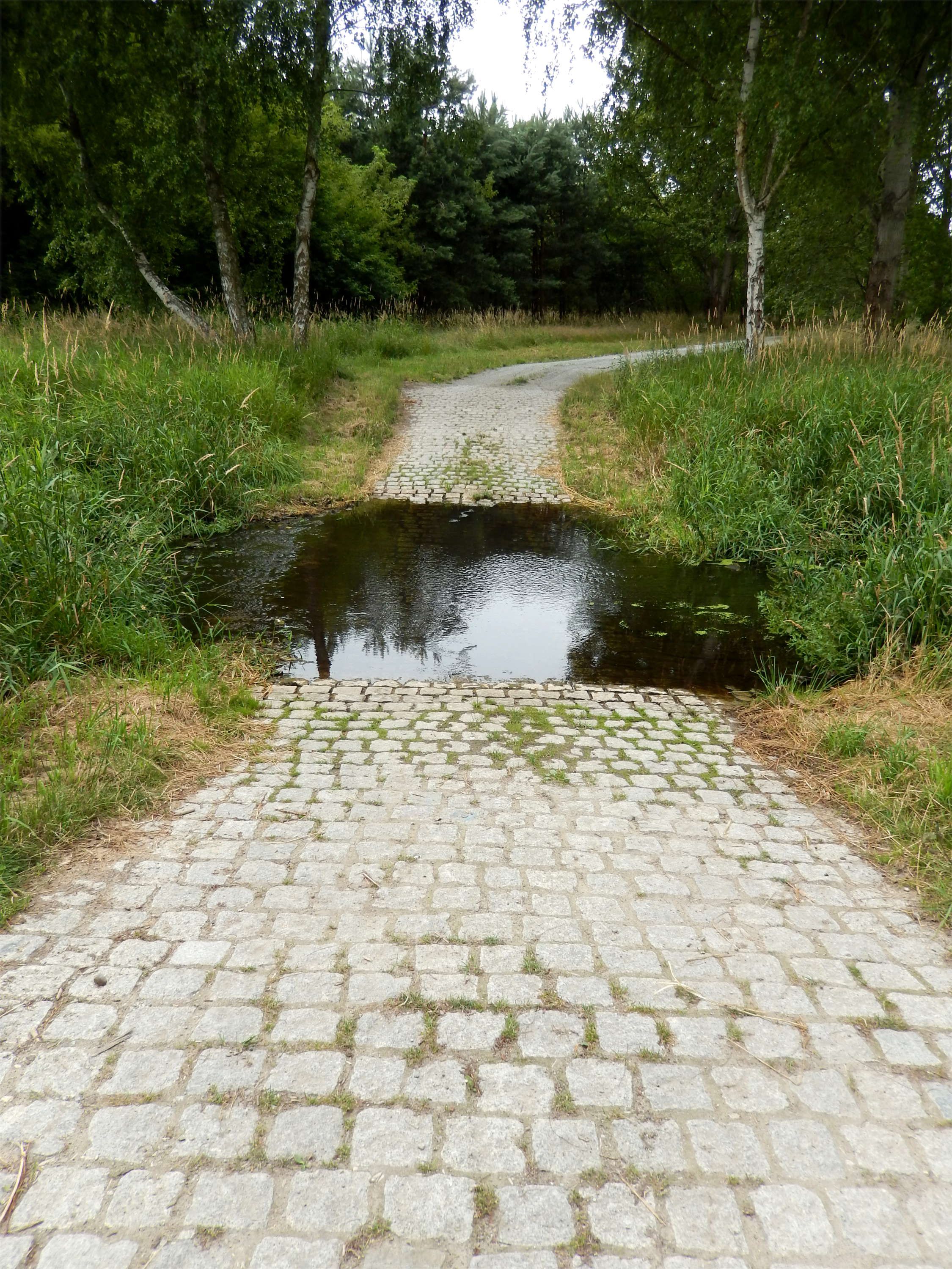 Ford across Lietzengraben between railway and freeway or rather motorway